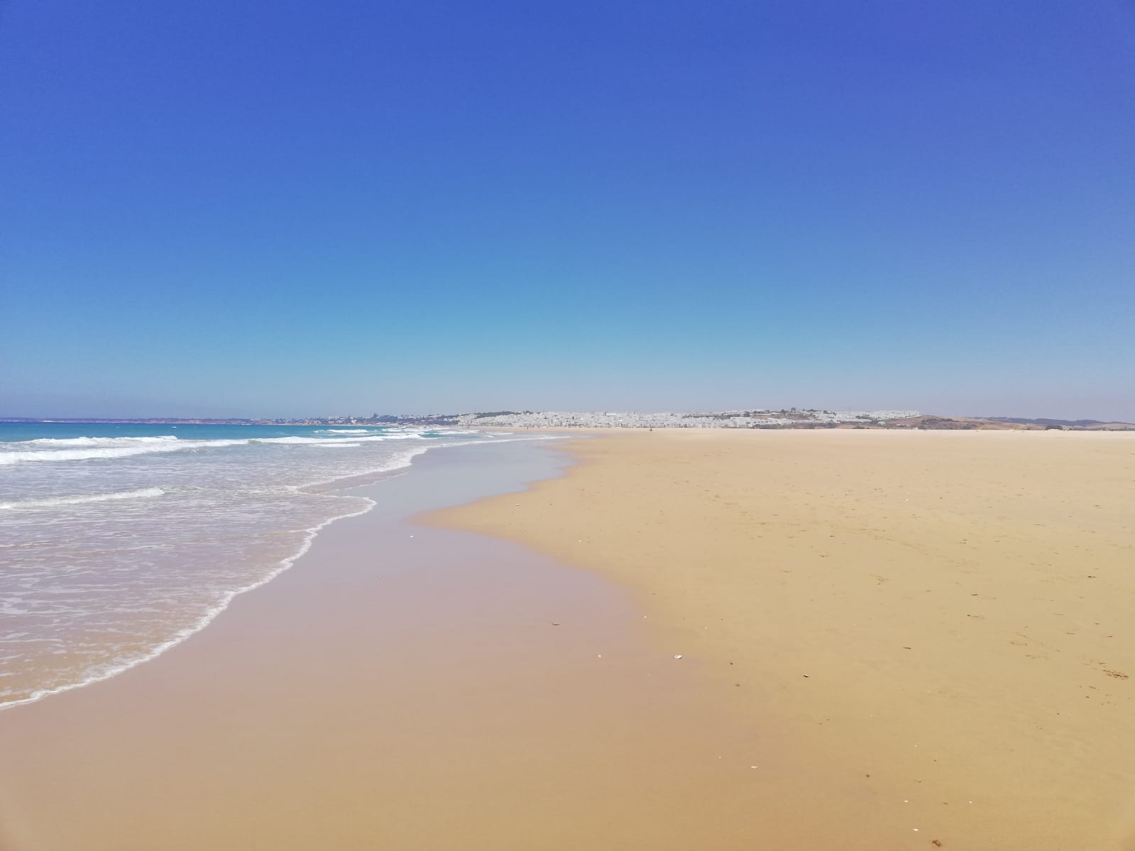 Beach in Conil de la Frontera